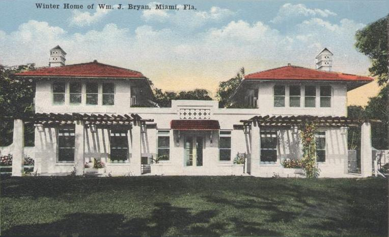 La Serena, winter home of William Jennings Bryan at Coconut Grove, Miami, Florida. Designed by August Geiger, Miami architect, it was built in 1913. Today it is a private home.